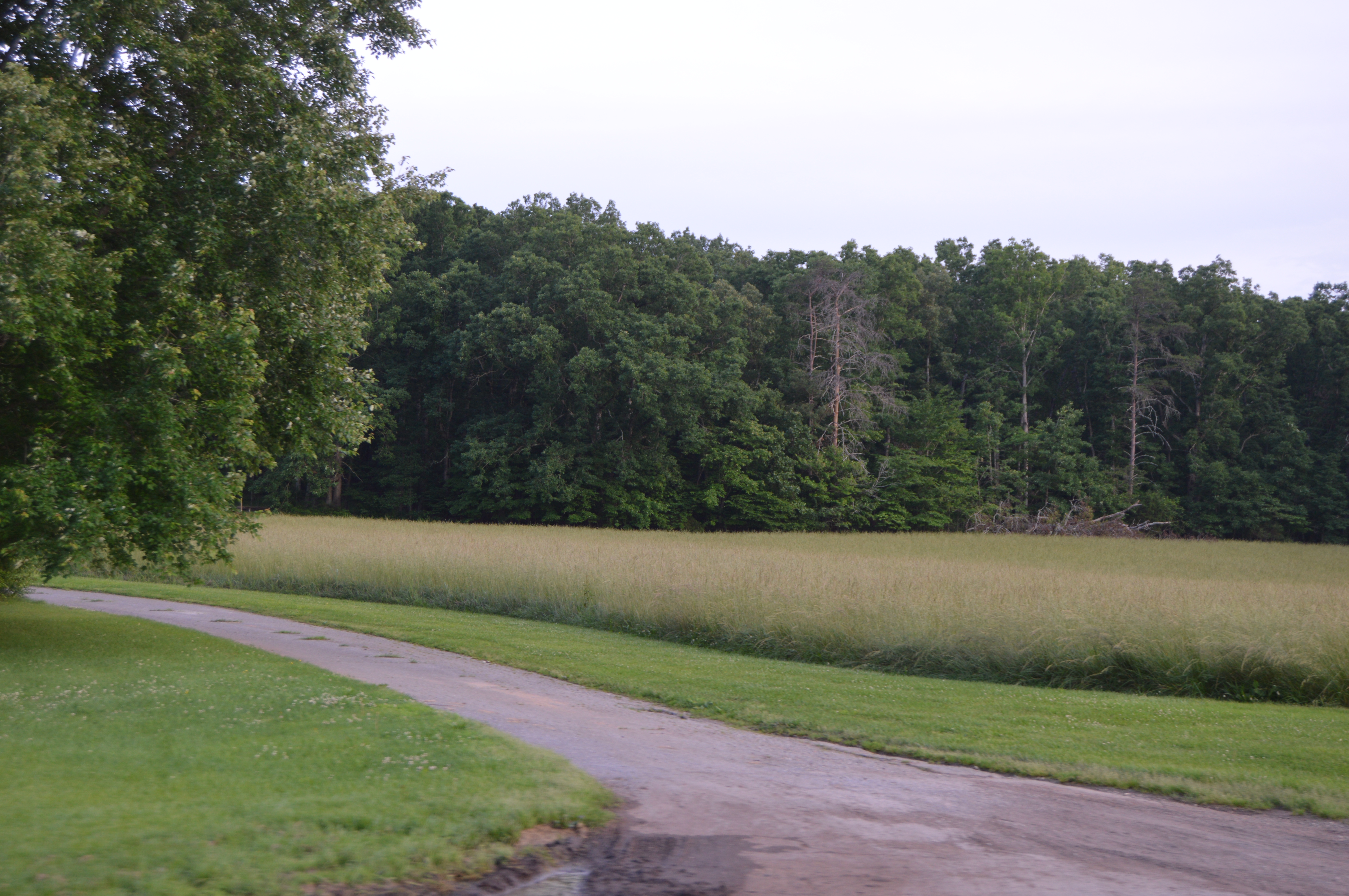 Driveway to and fields at the Walnut Hill estate, located on Lawyers Road between Evington and Lynchburg in Campbell County, Virginia, United States. The estate is listed on the National Register of Historic Places.